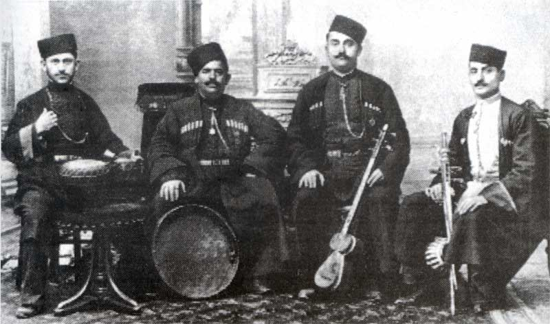 Azerbaijani mugham-singer from Shusha Bulbuljan with his ansemble